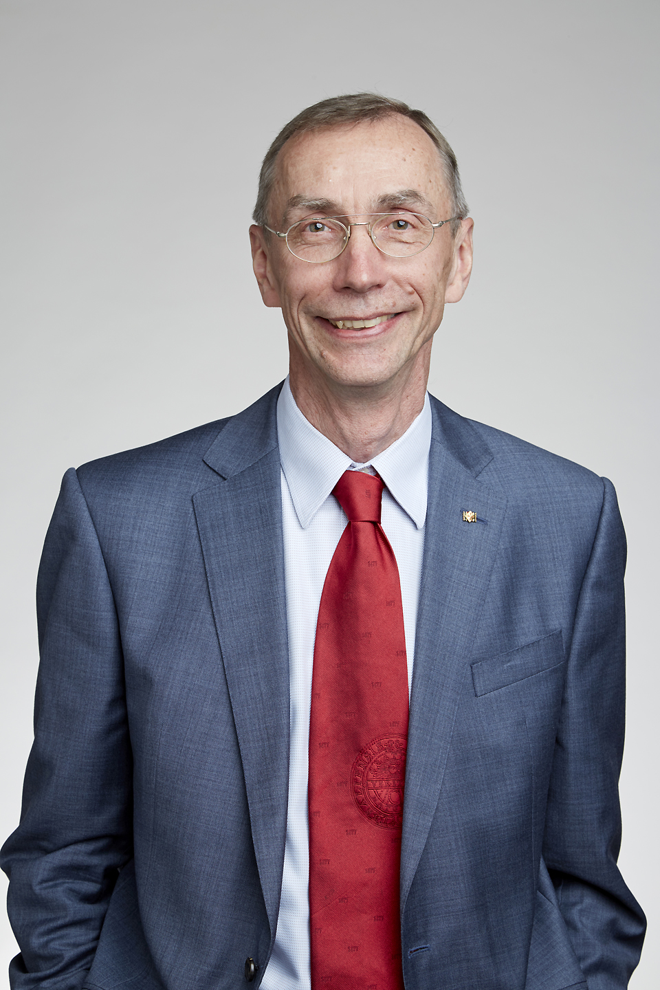 Svante Pääbo (born 20 April 1955) is a Swedish biologist specializing in evolutionary genetics. One of the founders of paleogenetics, he has worked extensively on the Neanderthal genome. Attribution: The Royal Society